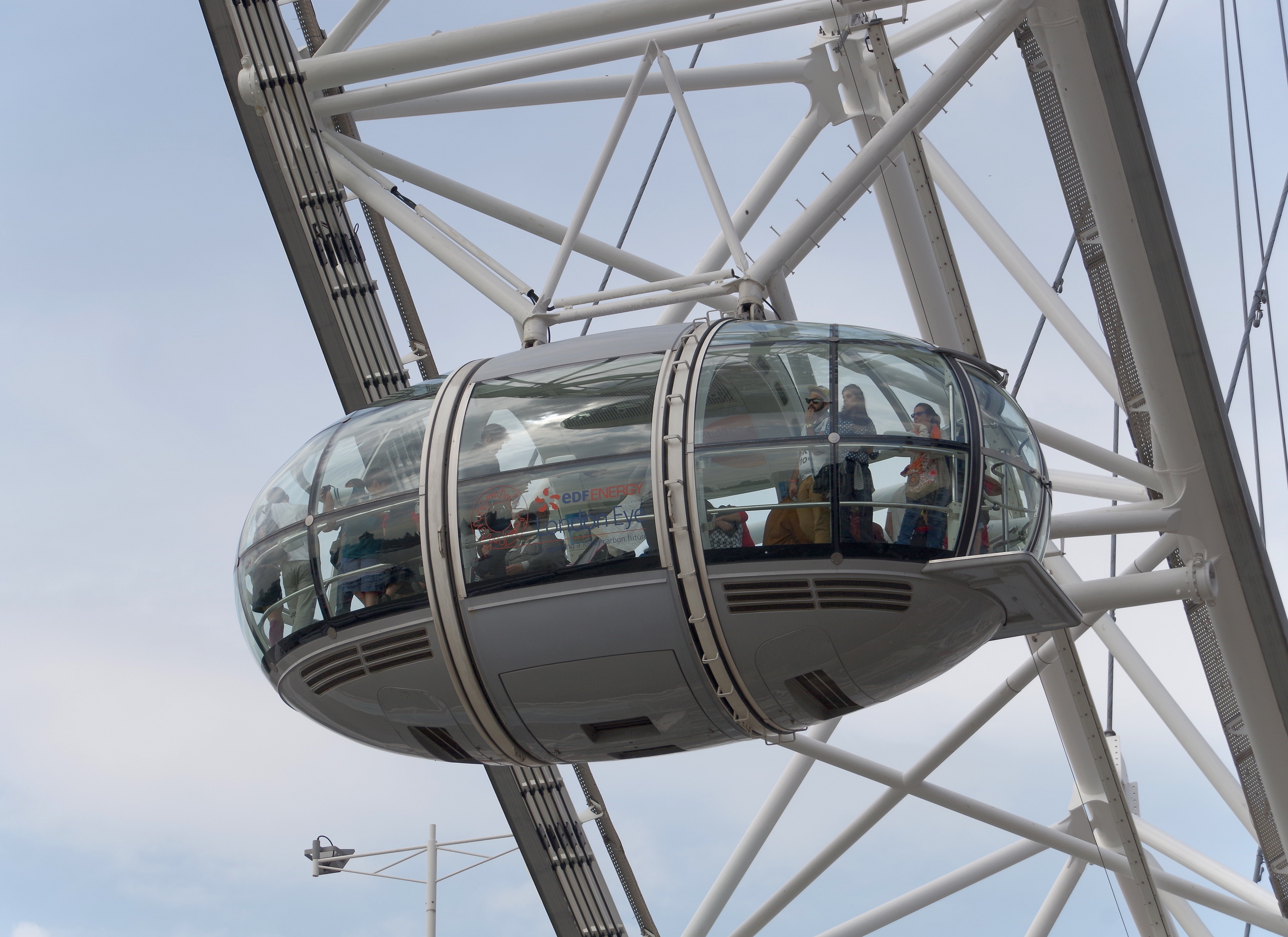 One of the pods of the London Eye.